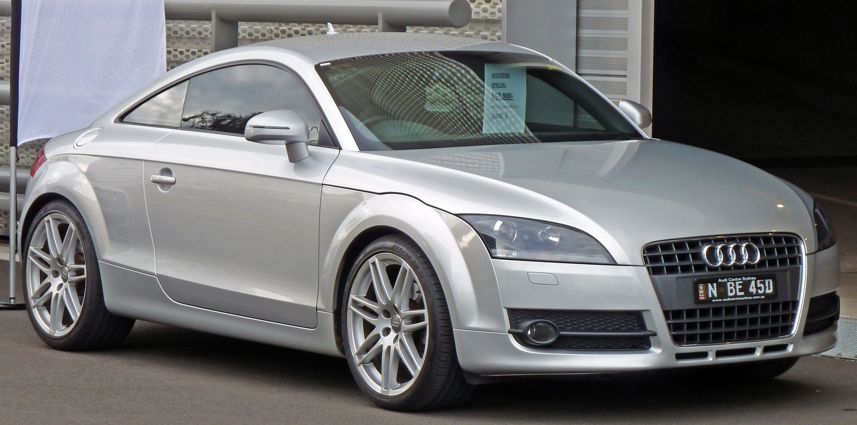 2007 Audi TT (8J) 2.0 TFSI coupe. Photographed at Audi Centre Sydney, Zetland, New South Wales, Australia.